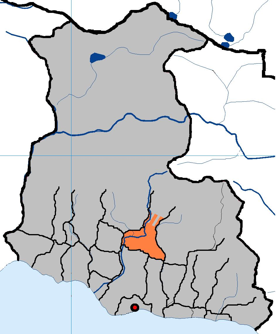 Map showing the location of the village Duripsh in Abkhazia.